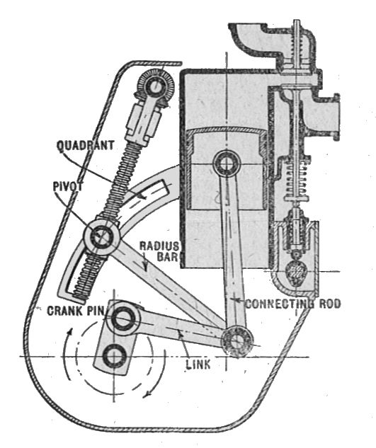 'Ch. II 'Fig. 35 A Variable Stroke Engine A piston engine (gasoline) with a stroke that may be adjusted whilst the engine is running. The crankshaft stroke remains constant, but an adjustable linkage between this and the piston connecting rod allows adjustment.